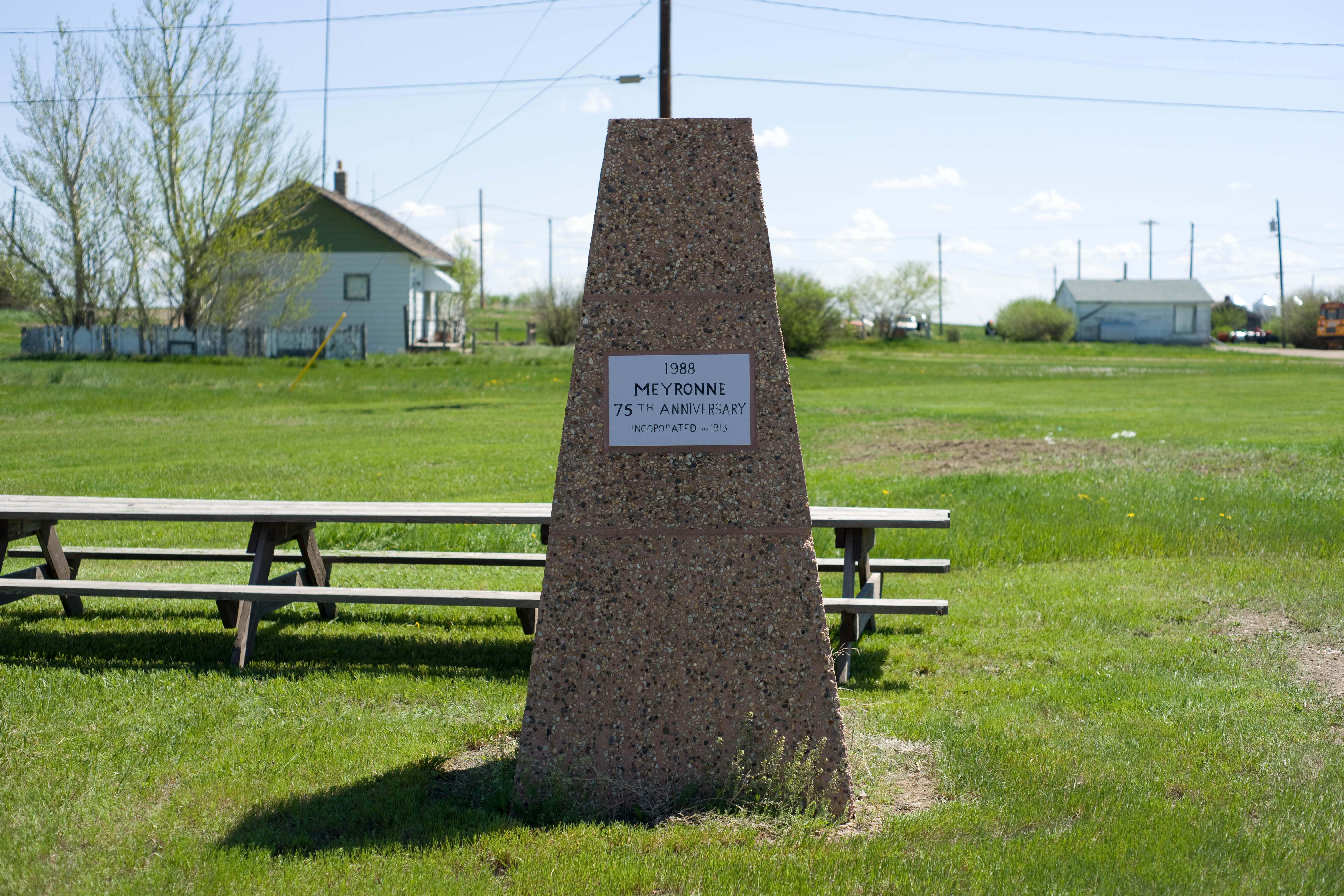 From